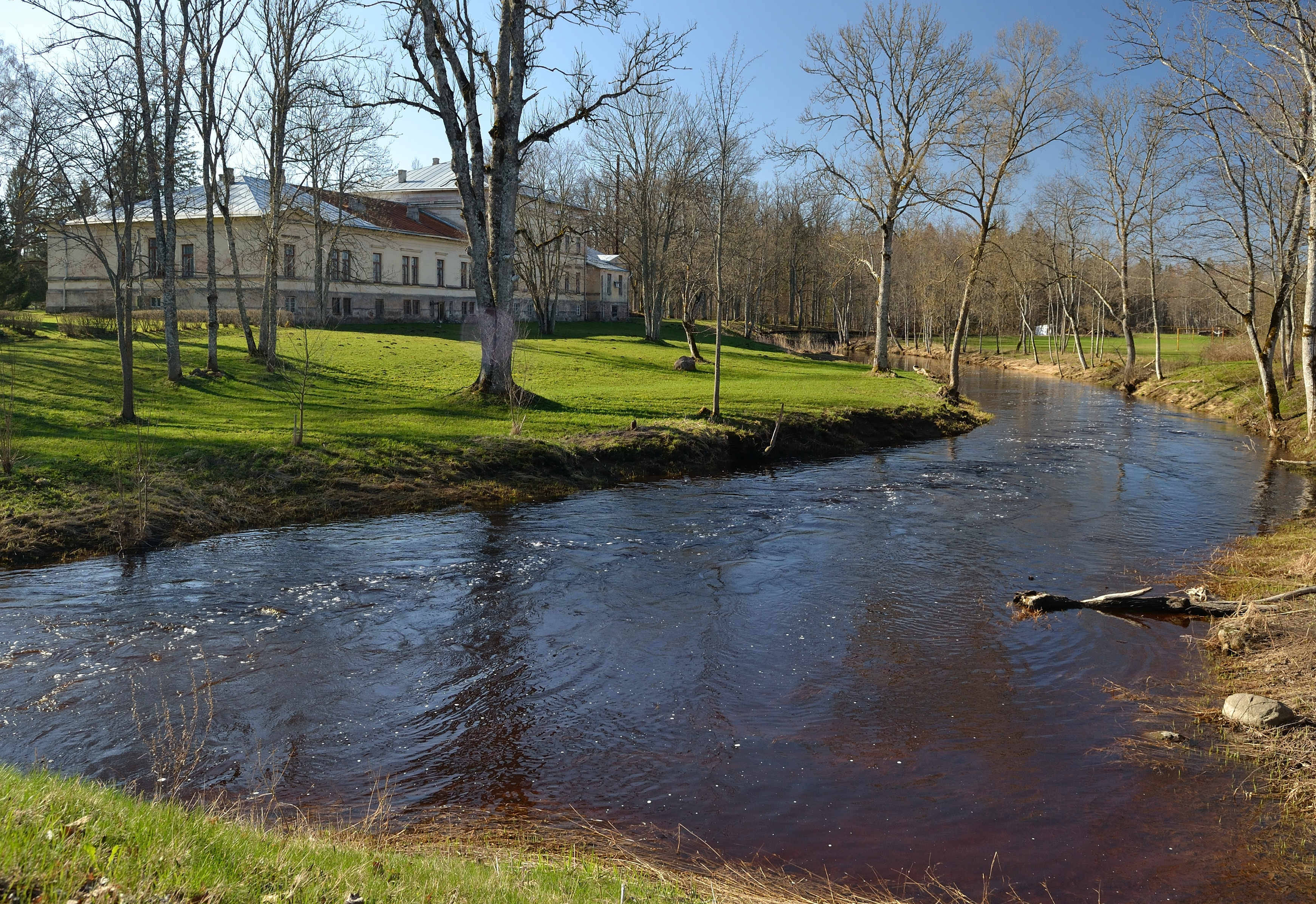 Käru river and Käru manor main building